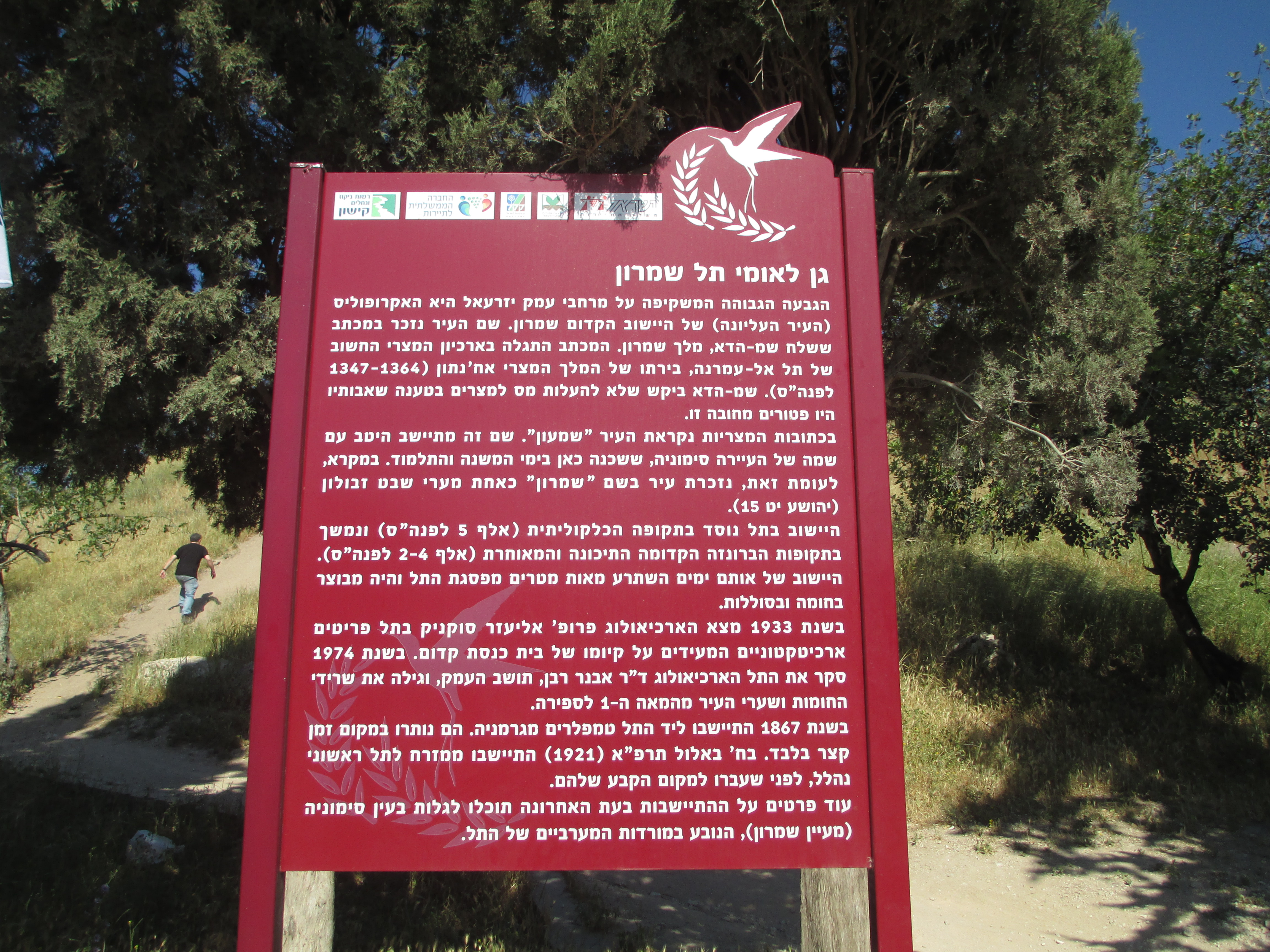 Tel Shimron